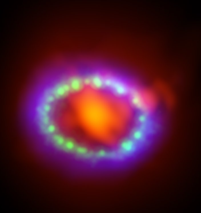 This image shows the remnant of Supernova 1987A seen in light of very different wavelengths. ALMA data (in red) shows newly formed dust in the centre of the remnant. Hubble (in green) and Chandra (in blue) data show the expanding shock wave.